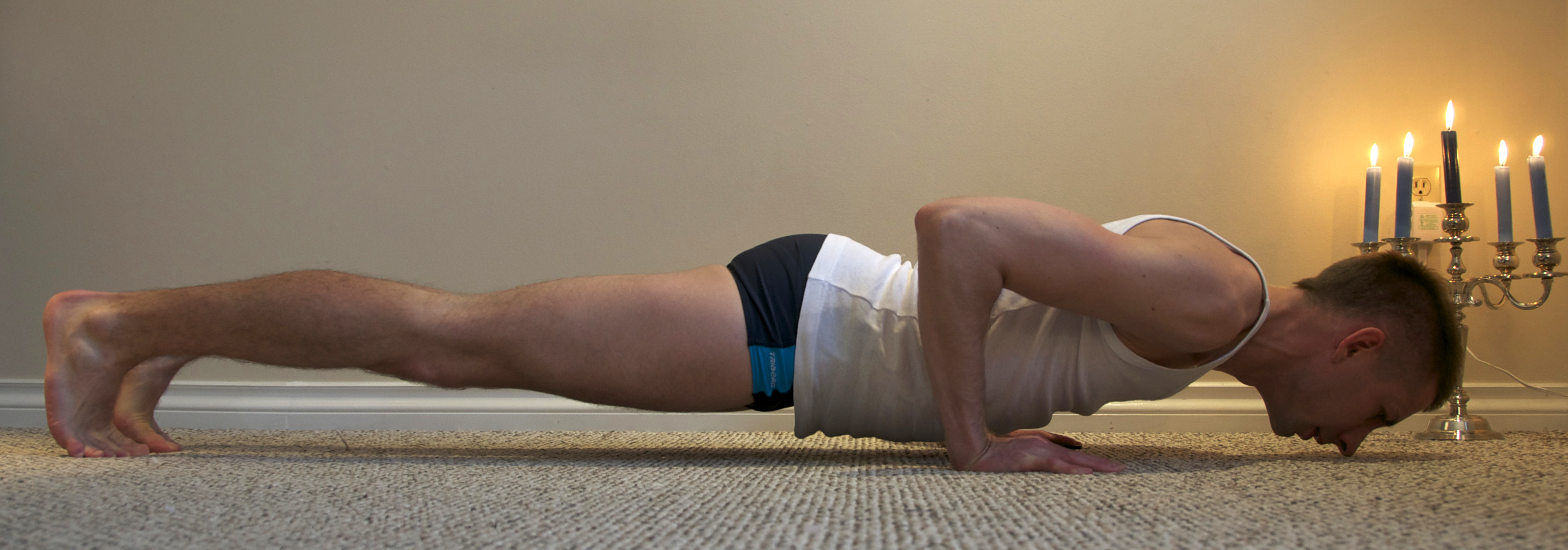 Caturaṅga Daṇḍāsana-Four-Limbed Staff yoga posture